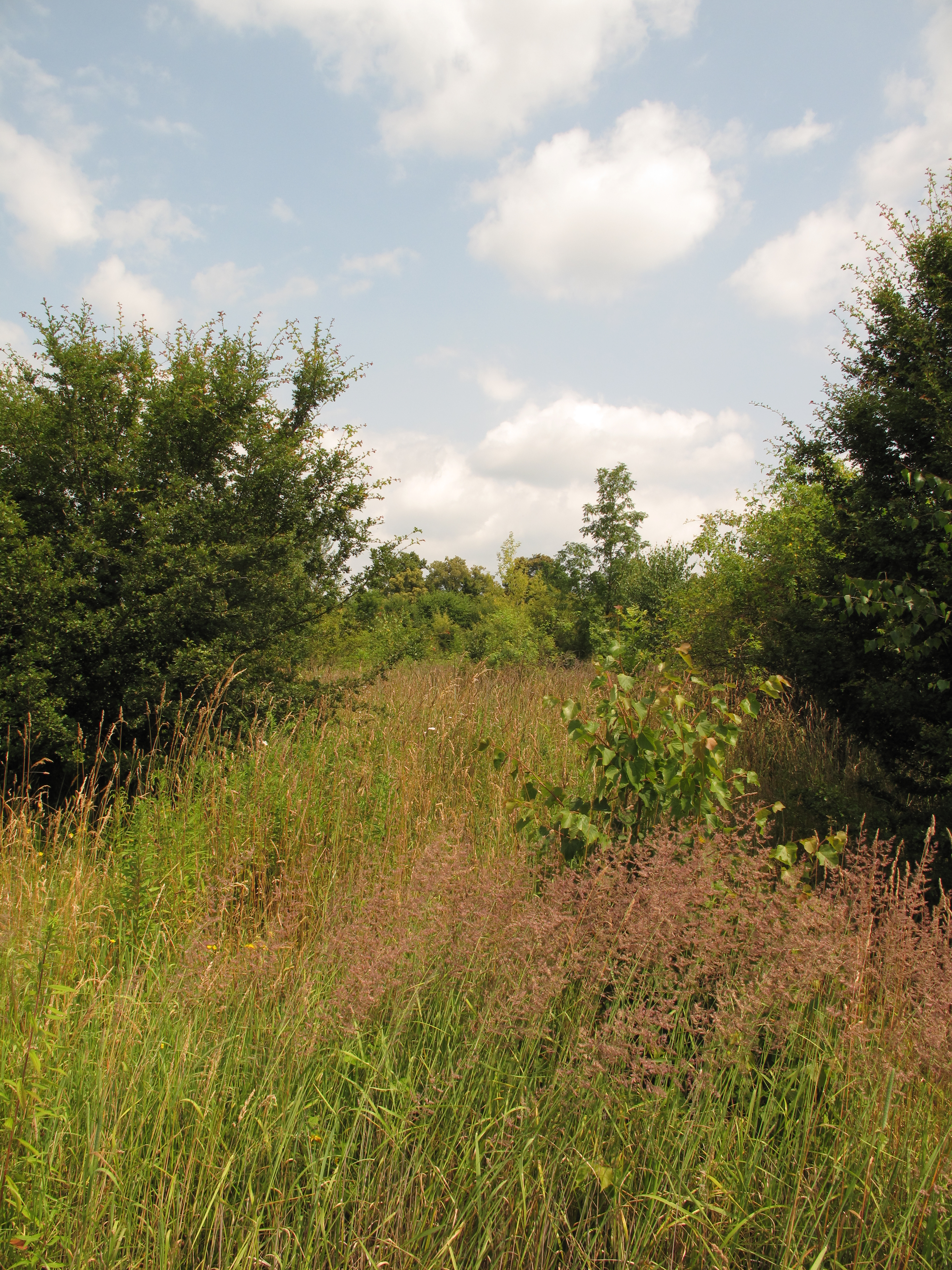 Bushgrass (Calamagrostis epigejos) in U Hřbitova natural monument, Rokycany town, Czech Republic.